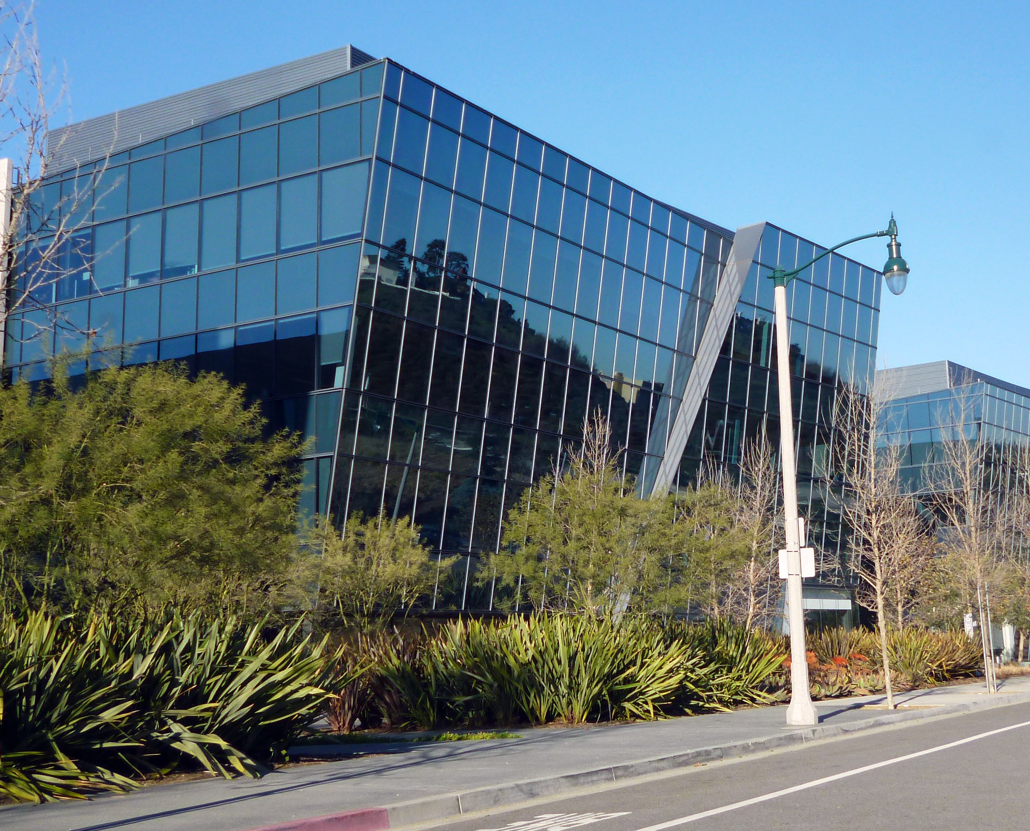 ICANN headquarters in Playa Vista, Los Angeles, California. Photographed by user Coolcaesar on January 20, 2013.